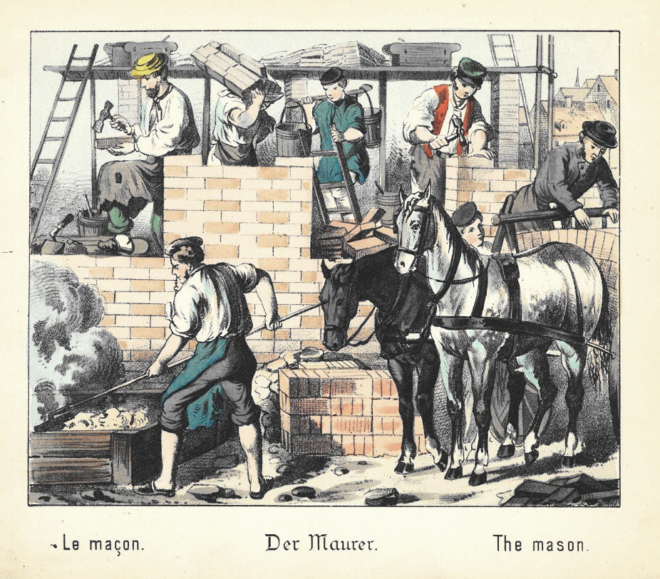 The mason